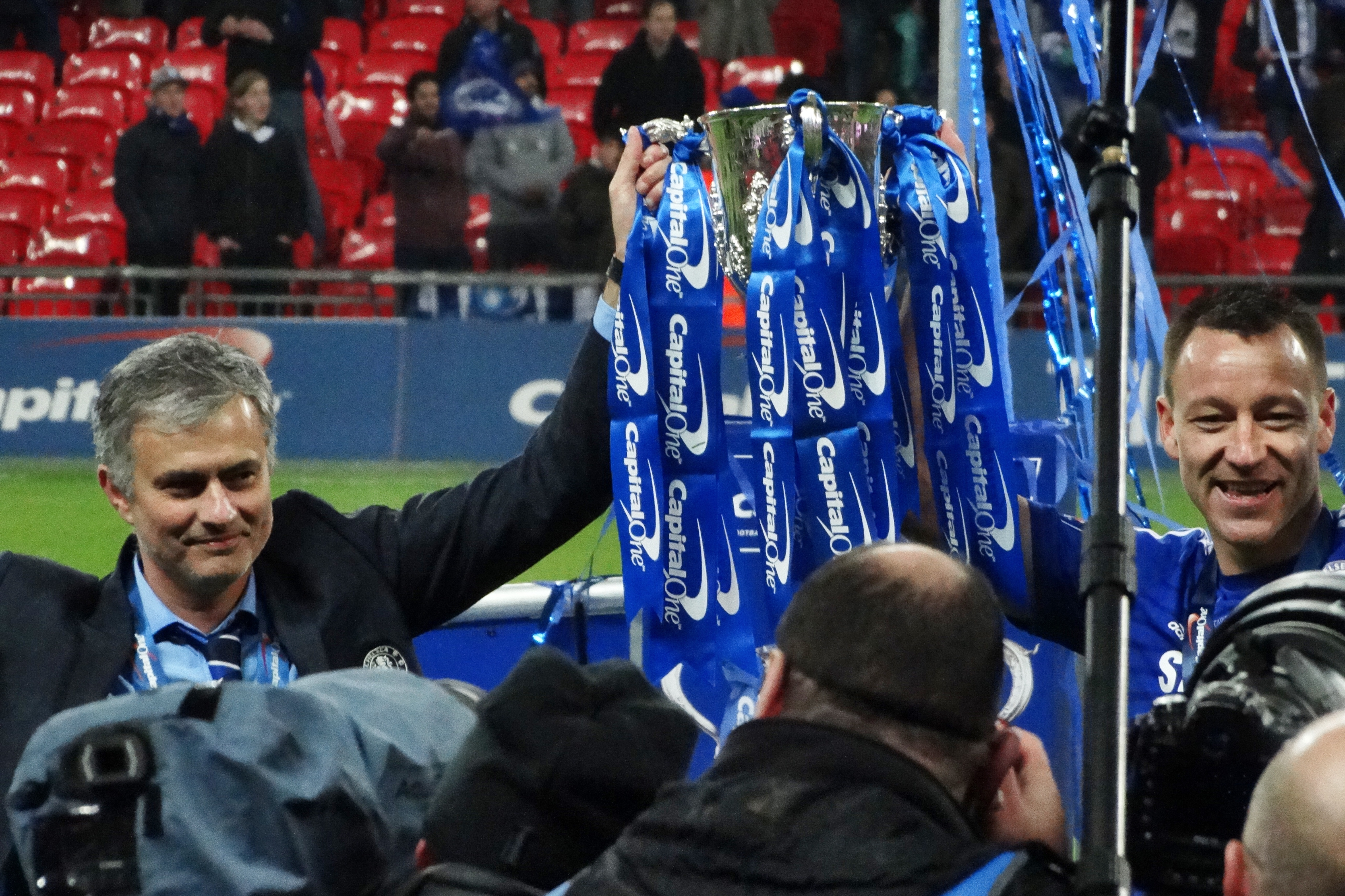 Chelsea 2 Spurs 0 Capital One Cup winners 2015